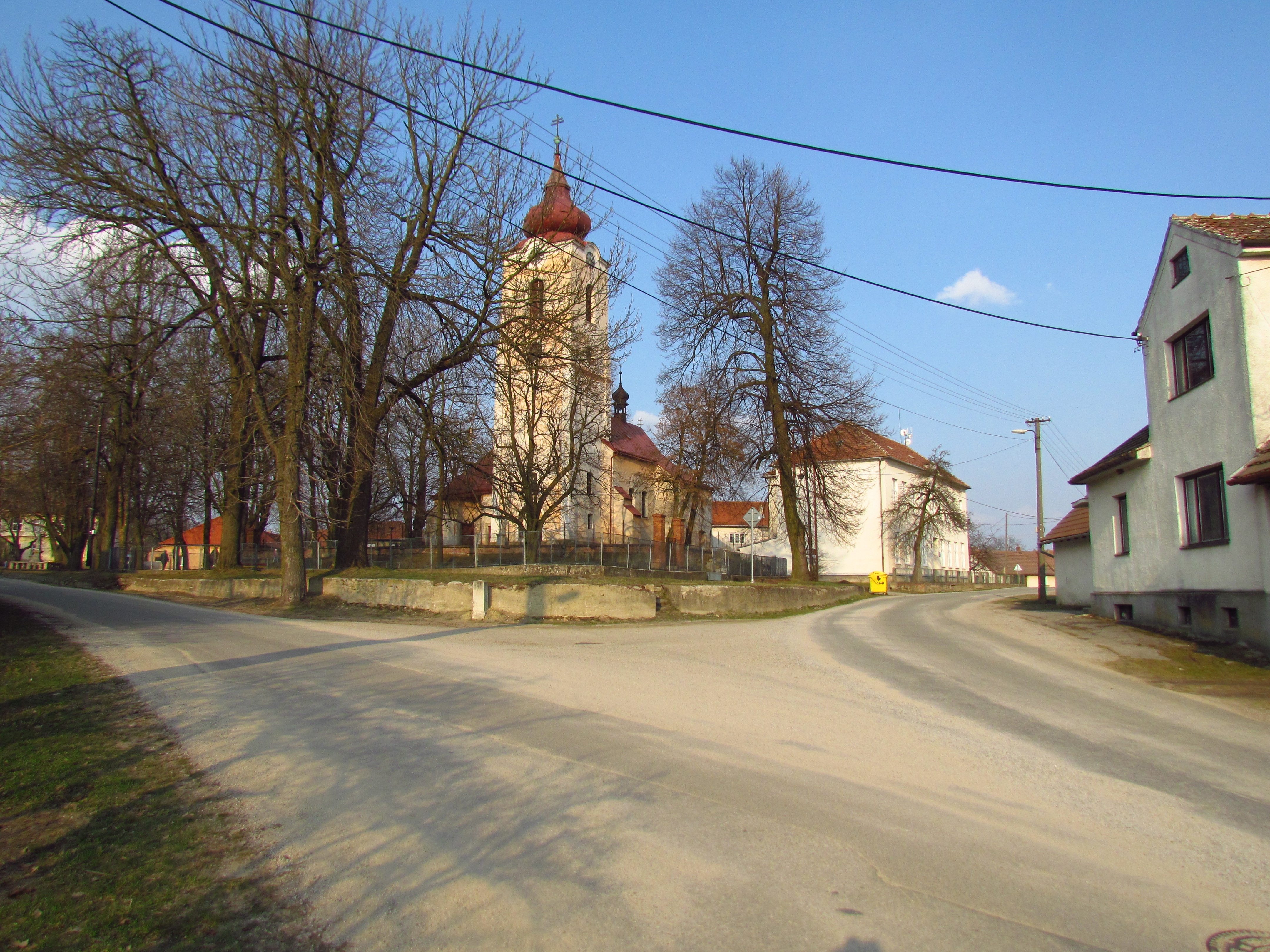 Center of Heraltice with church, Třebíč District.